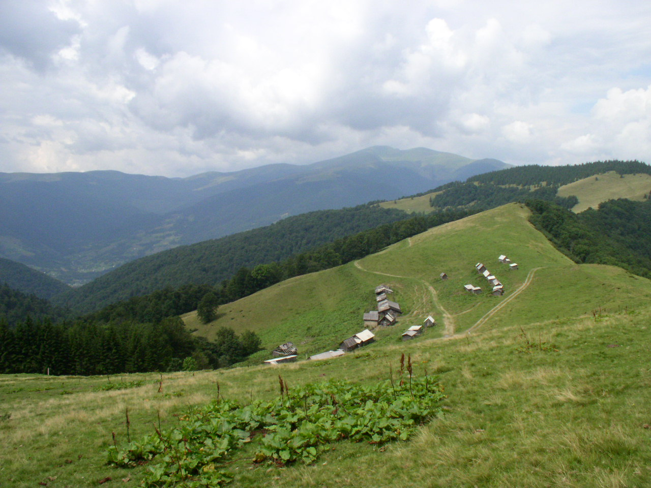 Chornohora range. Carpathian Mountains, Ukraine.